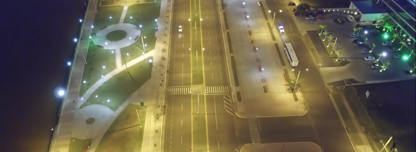 Park of Encarnación, Paraguay